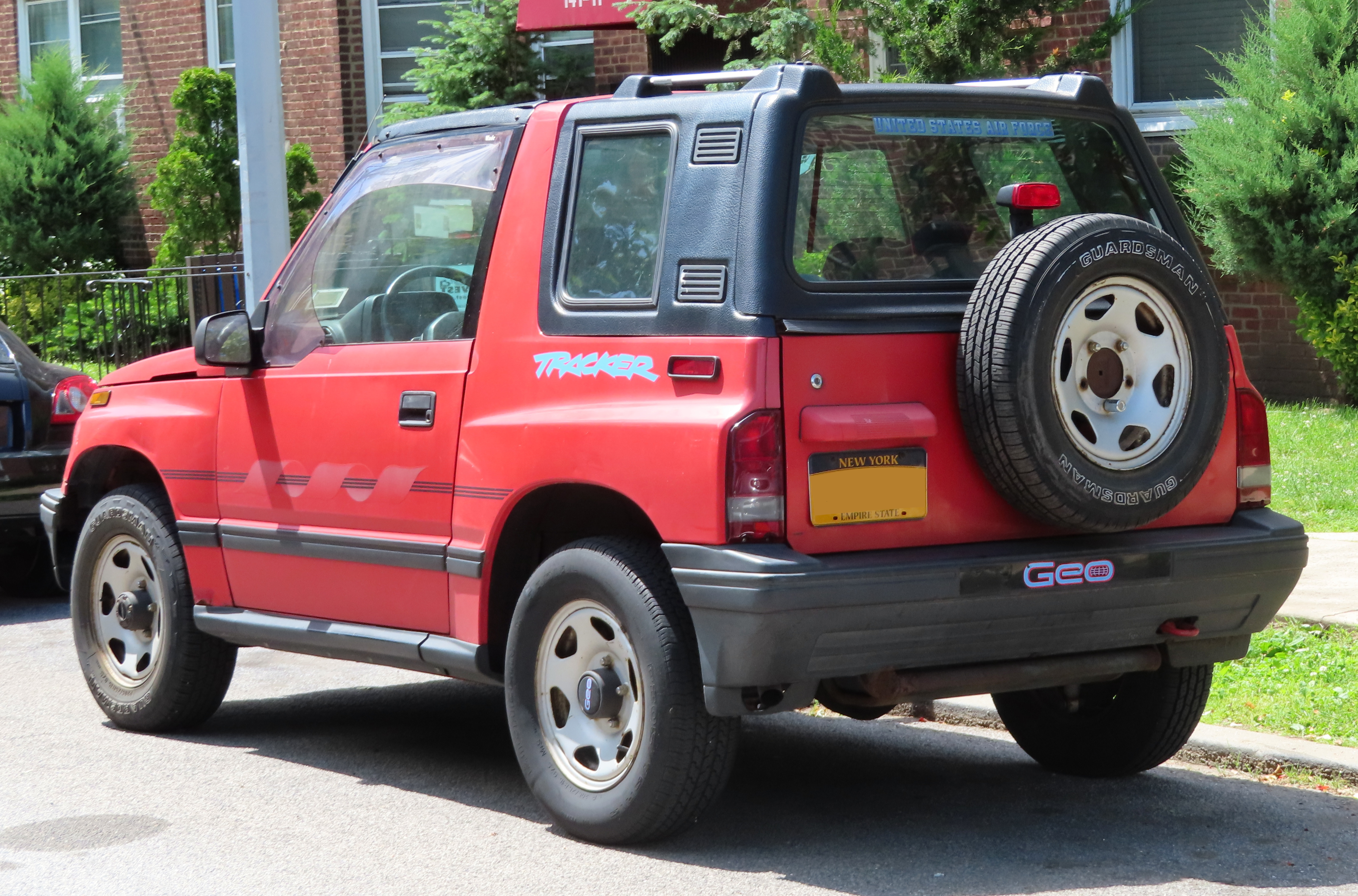 A 1994 Geo Tracker Convertible photographed in Kew Gardens Hills, Queens, New York, USA